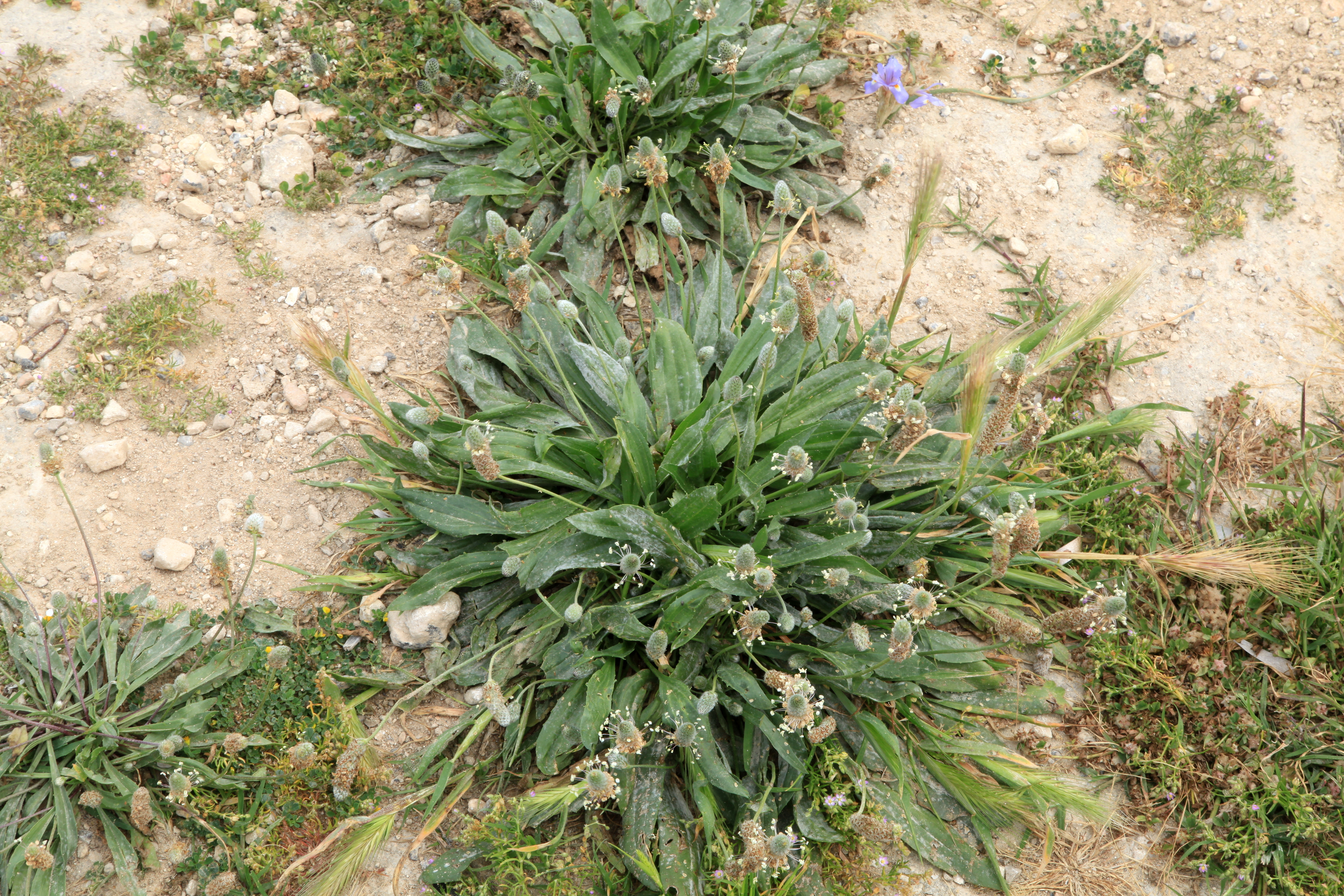 Plantago lagopus growing at Triq ir-Ramla tat-Torri l-Abjad in Mellieħa, Malta